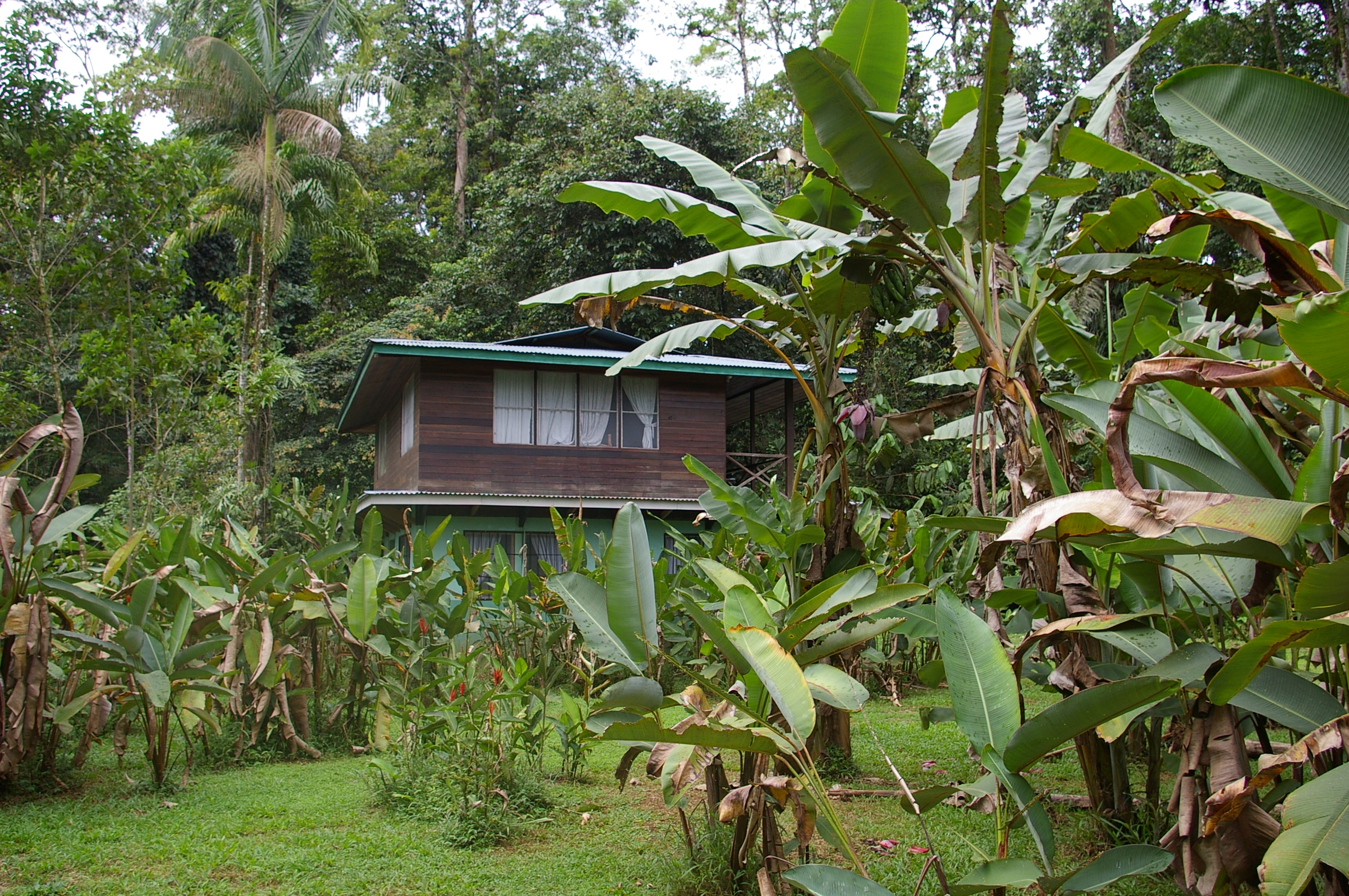 Scientist house at La Selva Biological Station